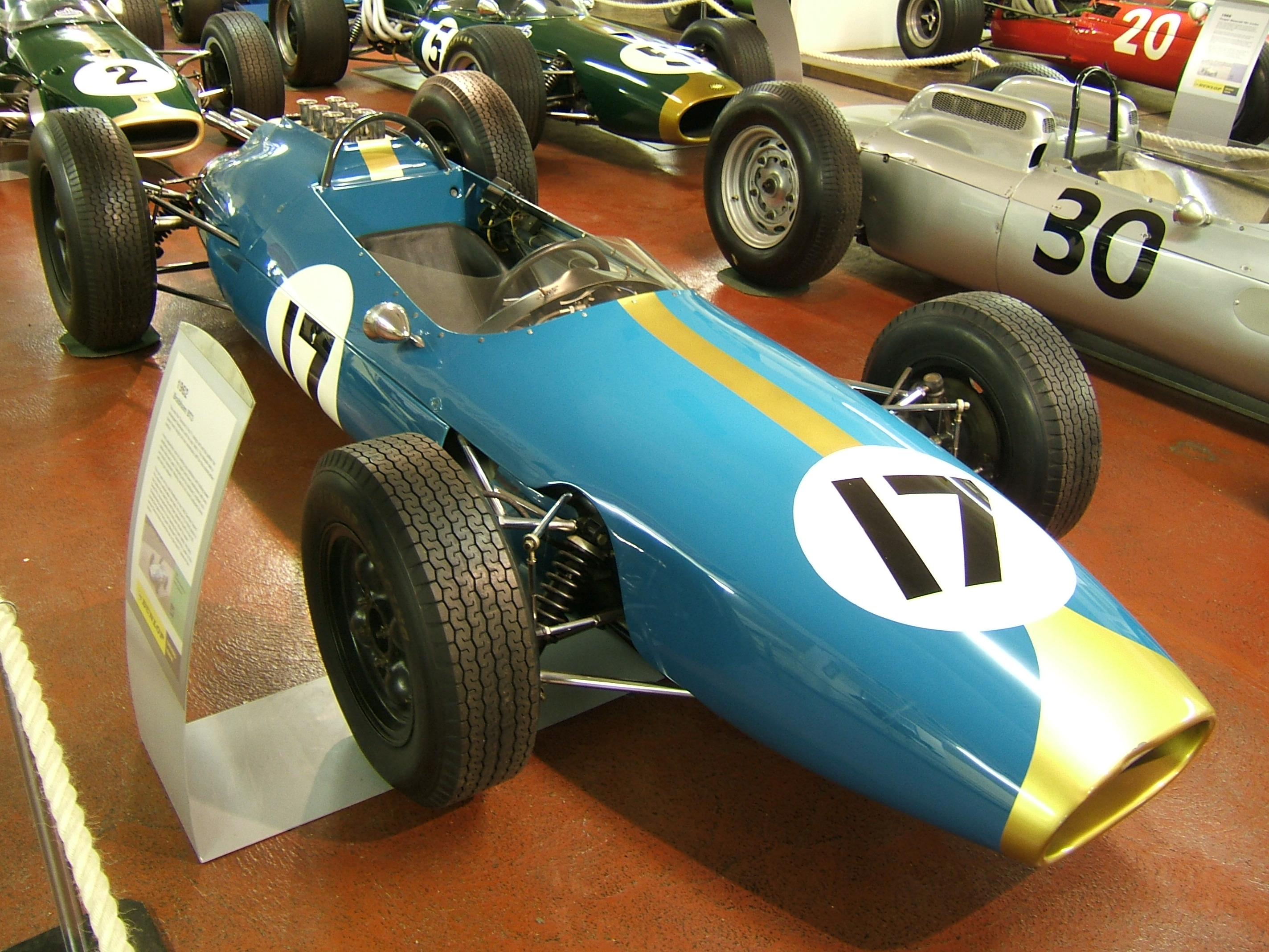 A Brabham BT3 Formula One car (1962). In the Donington Grand Prix Collection museum, Leics., UK.